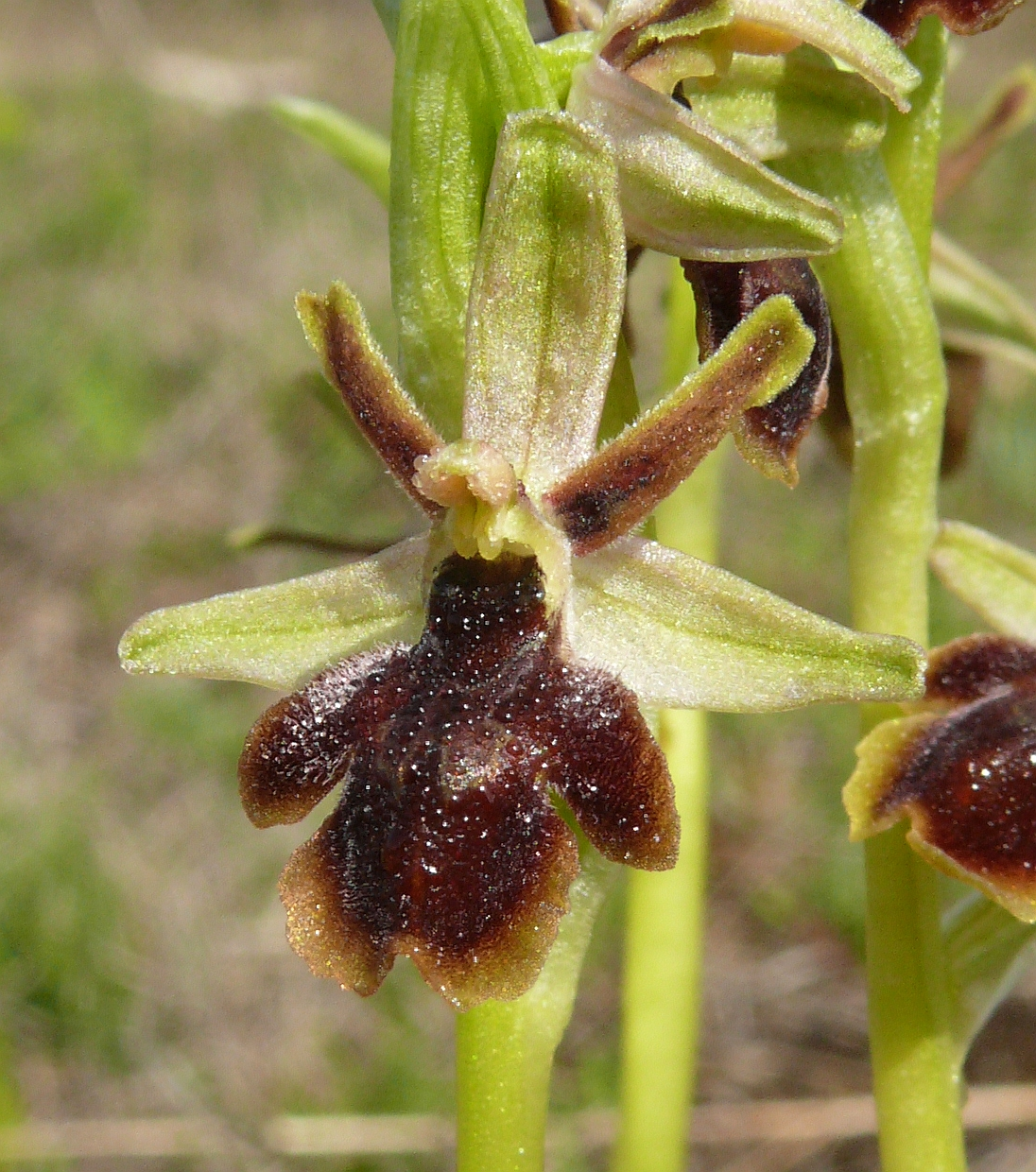 Ophrys × apicula (O. araneola × insectifera) Tauberland, Deutschland